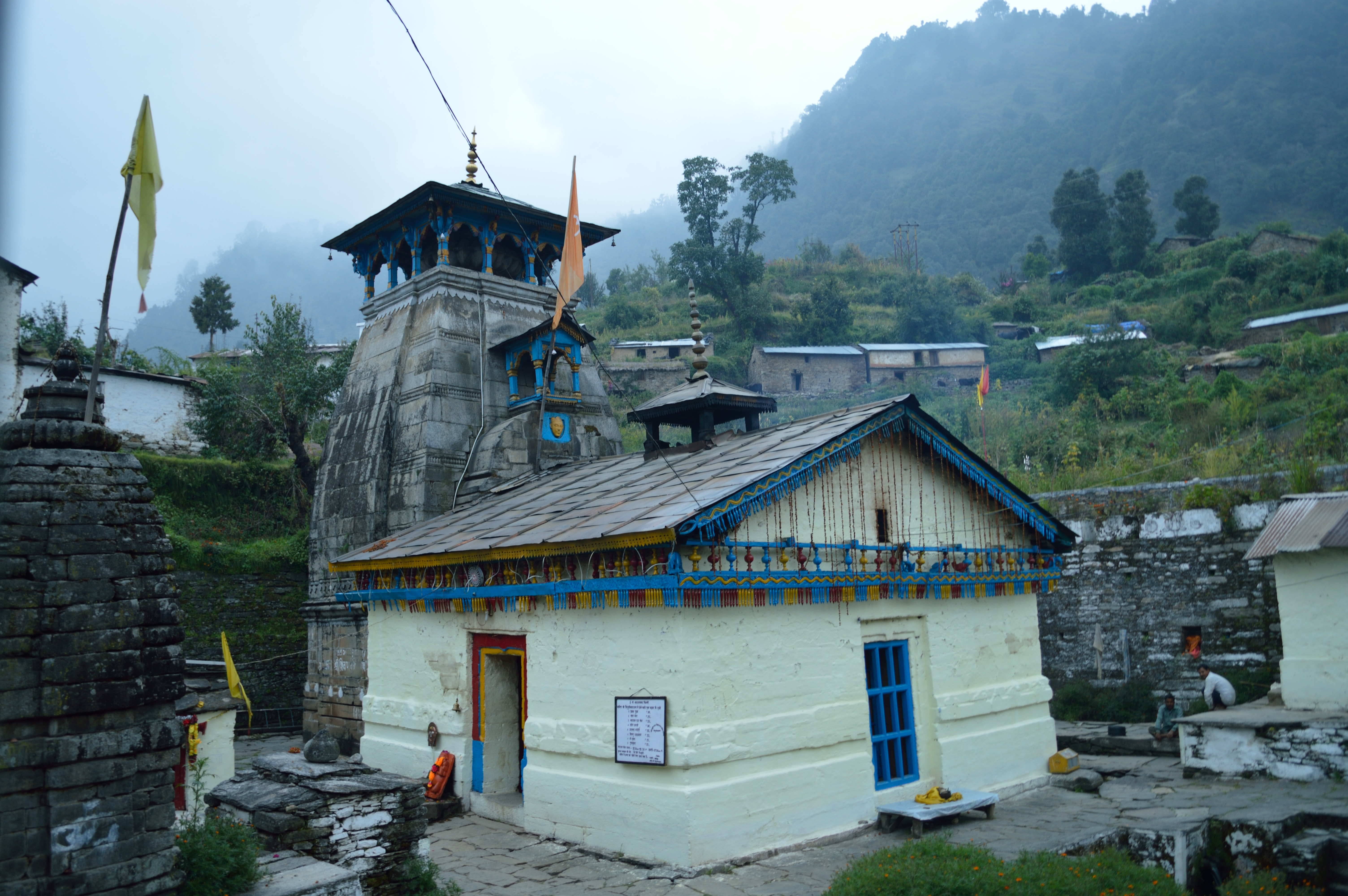 Triyuginarayan Temple - OCT 2014 Pic2